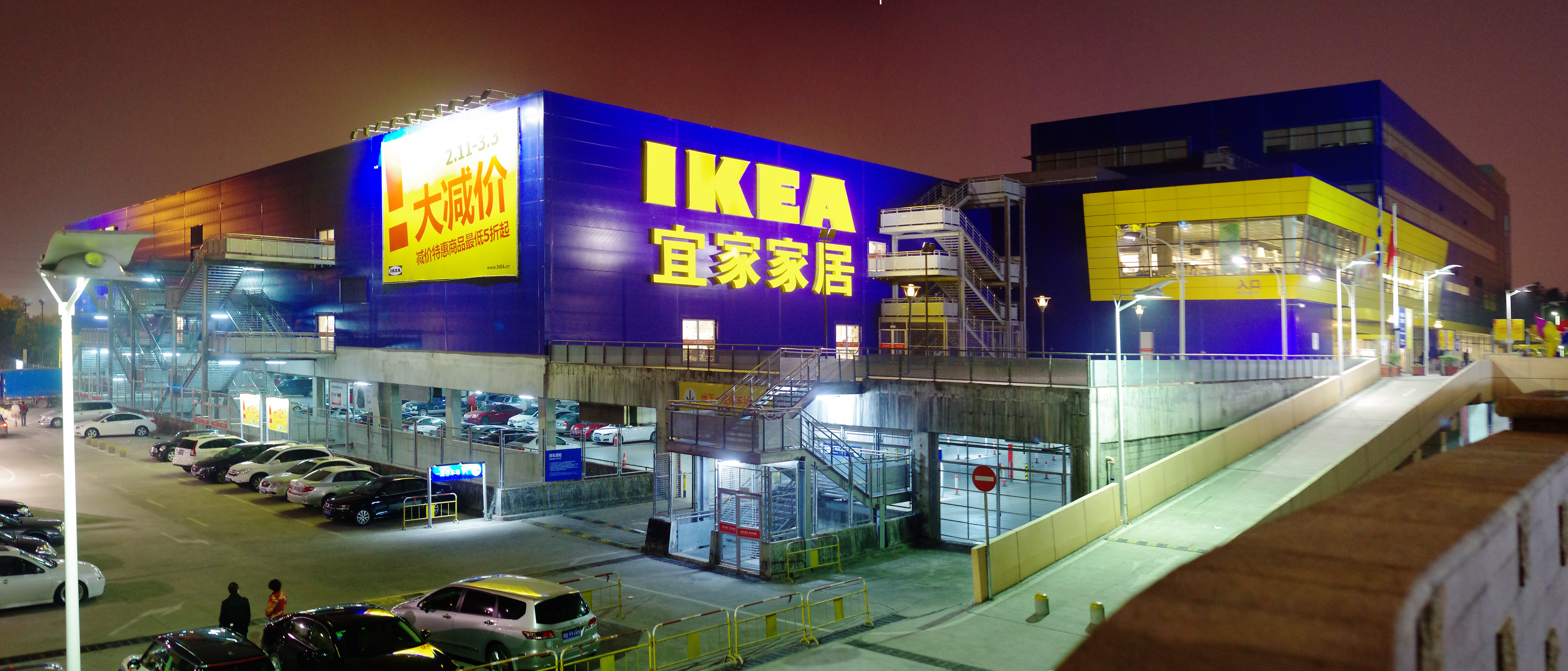 IKEA at Nanshan District, Shenzhen, China.